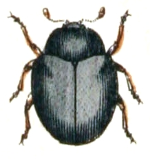 Scymnus nigrinus, from Calwer's Käferbuch, Table 46, Picture 24. Taxonomy was updated to 2008, using mostly the sites Fauna Europaea and BioLib. Please contact Sarefo if the determination is wrong!